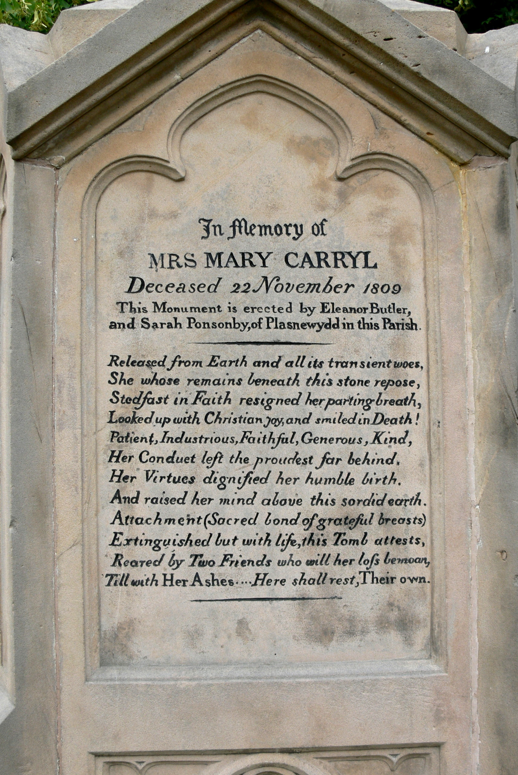 Llangollen ( Wales ). St.Collen parish church: Grave monument of the Ladies of Llangollen ( 19th century ) - Memorial to Mary Caryl, housekeeper of the ladies ( + 1809 ).